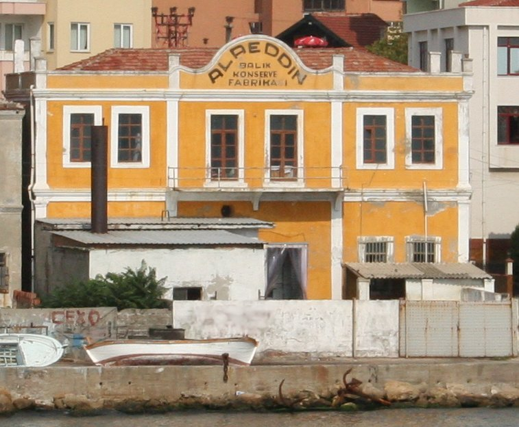 Canned fish producer Alâeddin, Gelibolu, Turkey